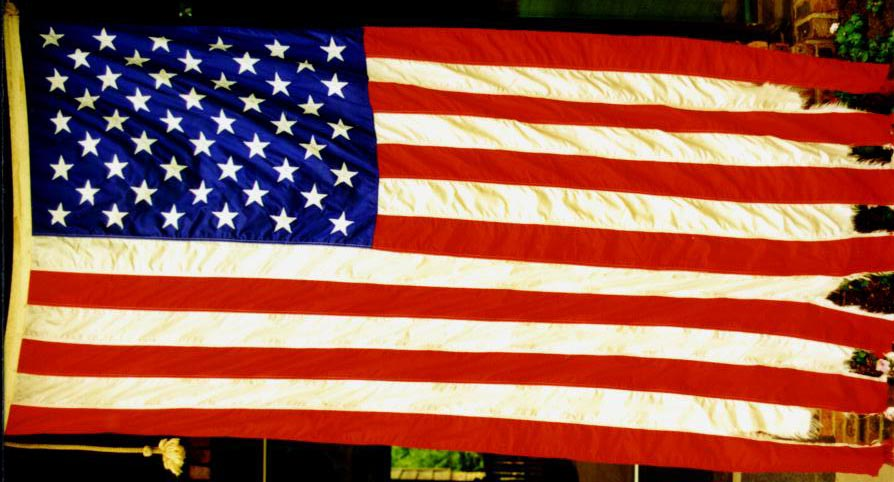 USS Hanson (DD-832) Battle Flag